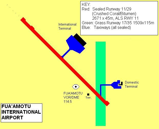 Cnb-Npl, created by myself from a rough diagram, drawn from the Tonga AIP